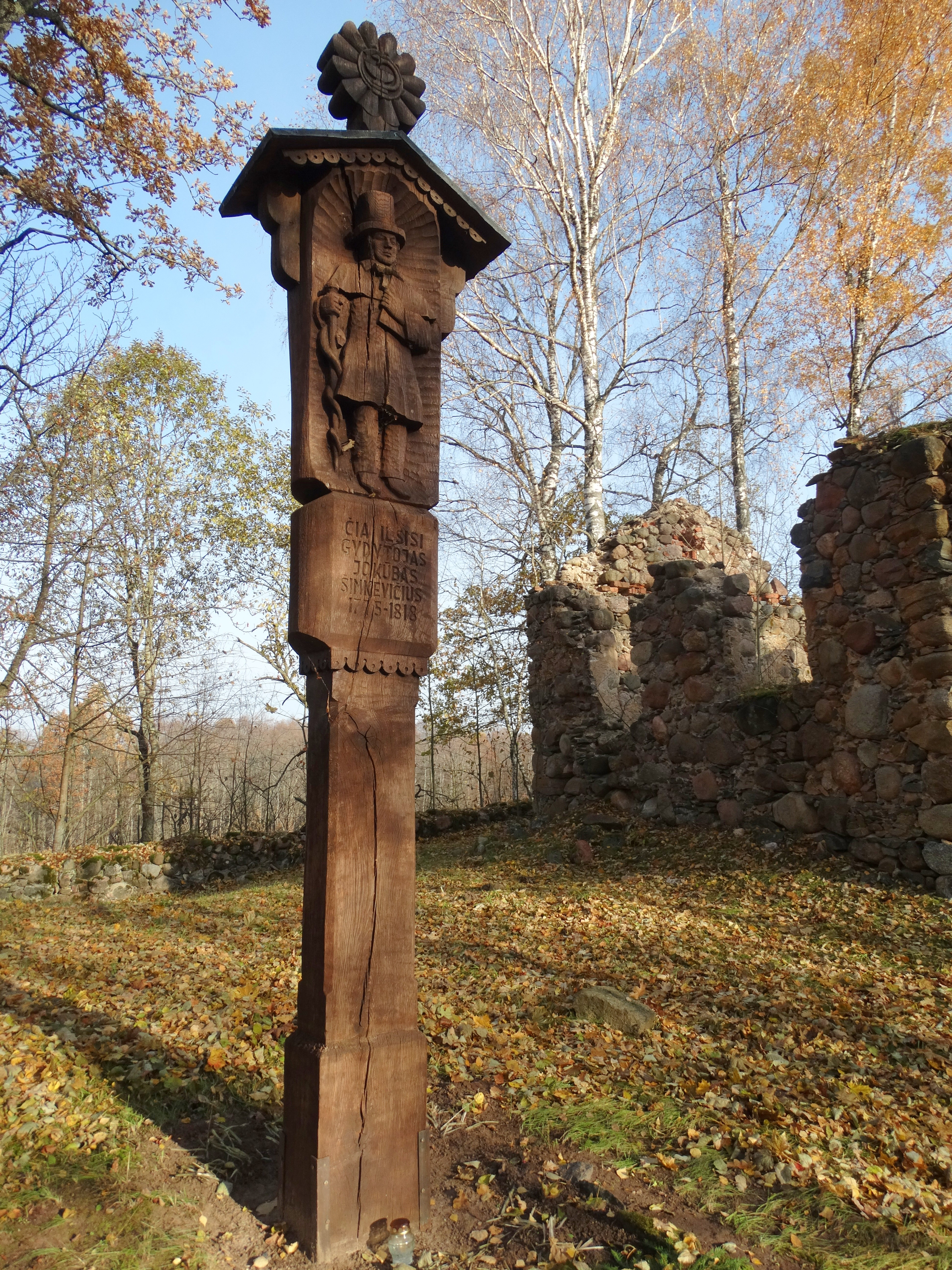 Grave of Jakub Szymkiewicz (1775–1818), Taukeliai, Utena district, Lithuania